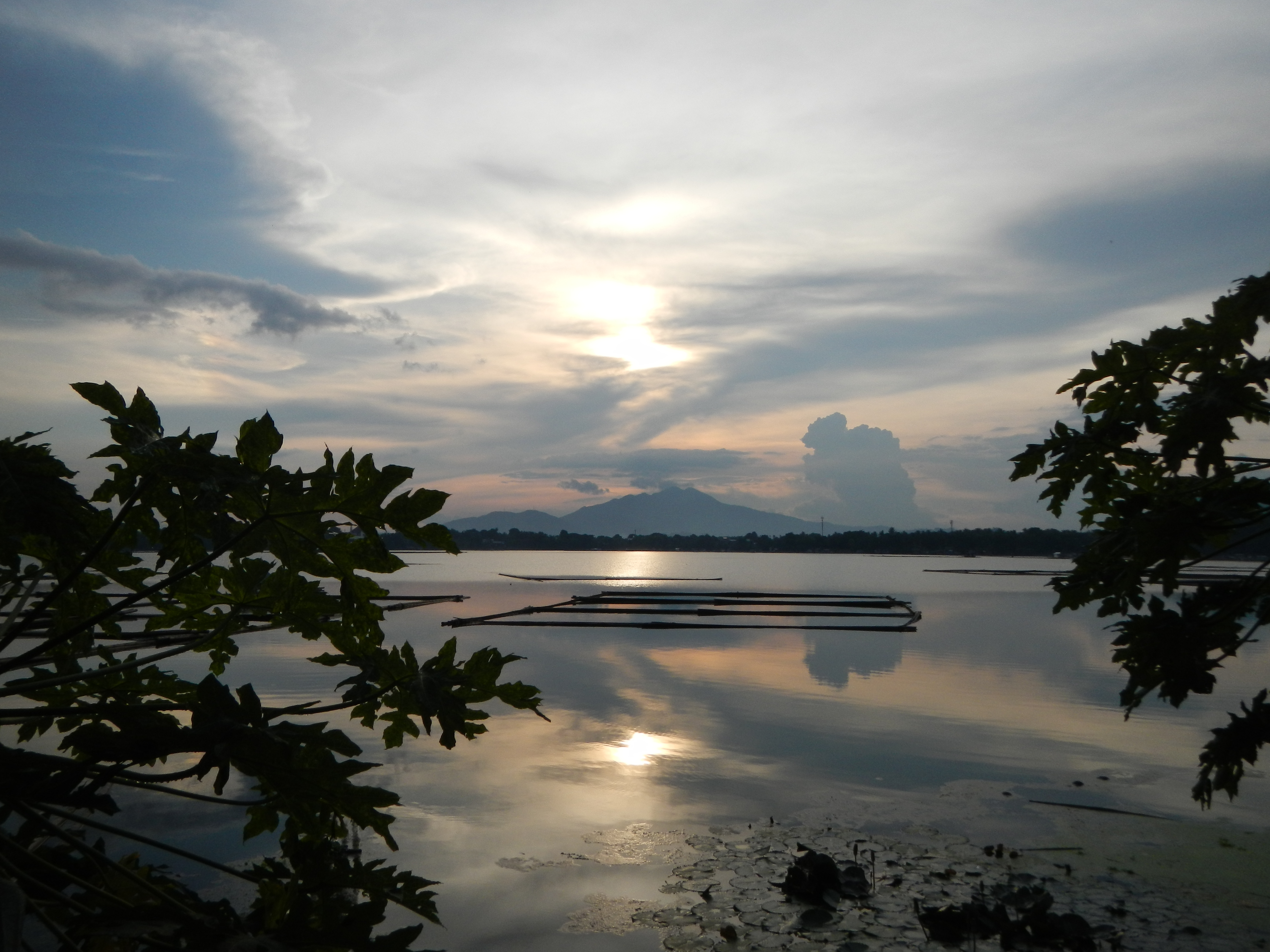 Rambutan[1] (before ripening) (The rambutan (/ræmˈbuːtən/; taxonomic name: Nephelium lappaceum) is a medium-sized tropical tree in the family Sapindaceae. The fruit produced by the tree is also known as rambutan.) --- along the roads in Lake Sampaloc[2] is an inactive volcanic maar[3] [4]